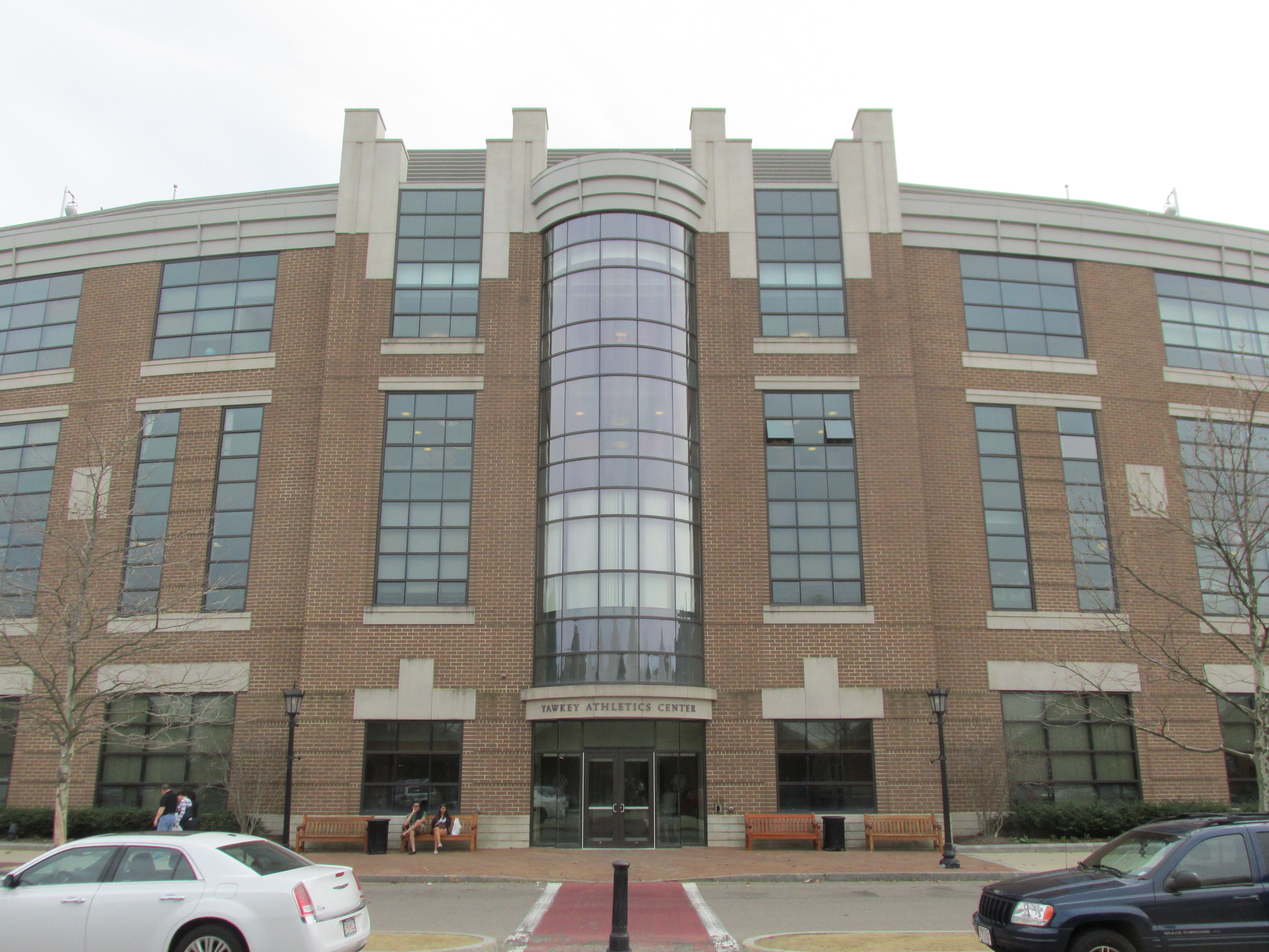 Yawkey Athletics Center, Boston College, Chestnut Hill Massachusetts - 2014